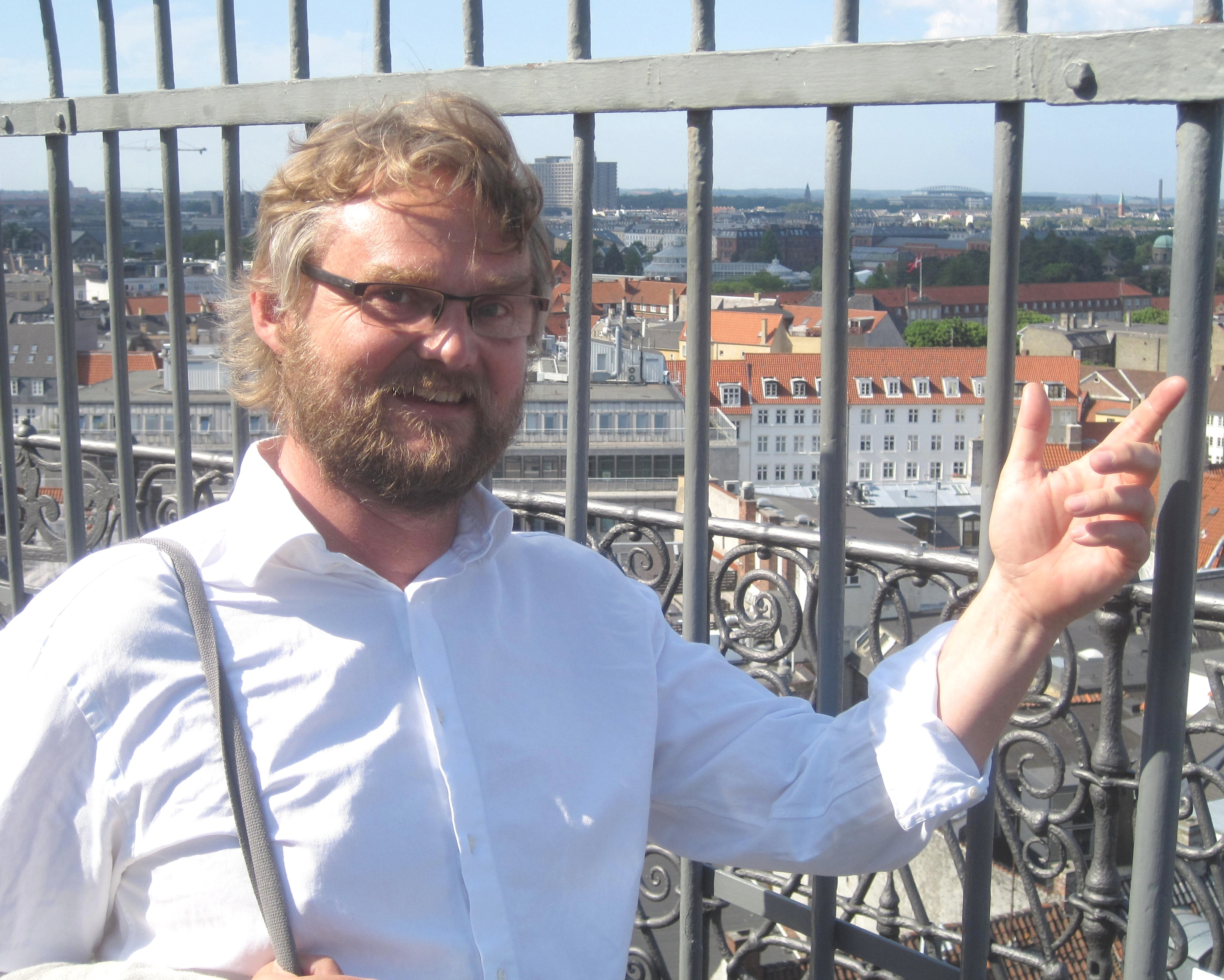 Björn Magnusson Staaf (born 1962), Swedish archaeologist and museologist; associate professor at Lund University. Photo taken during a visit to Rundetårn in Copenhagen 2013.